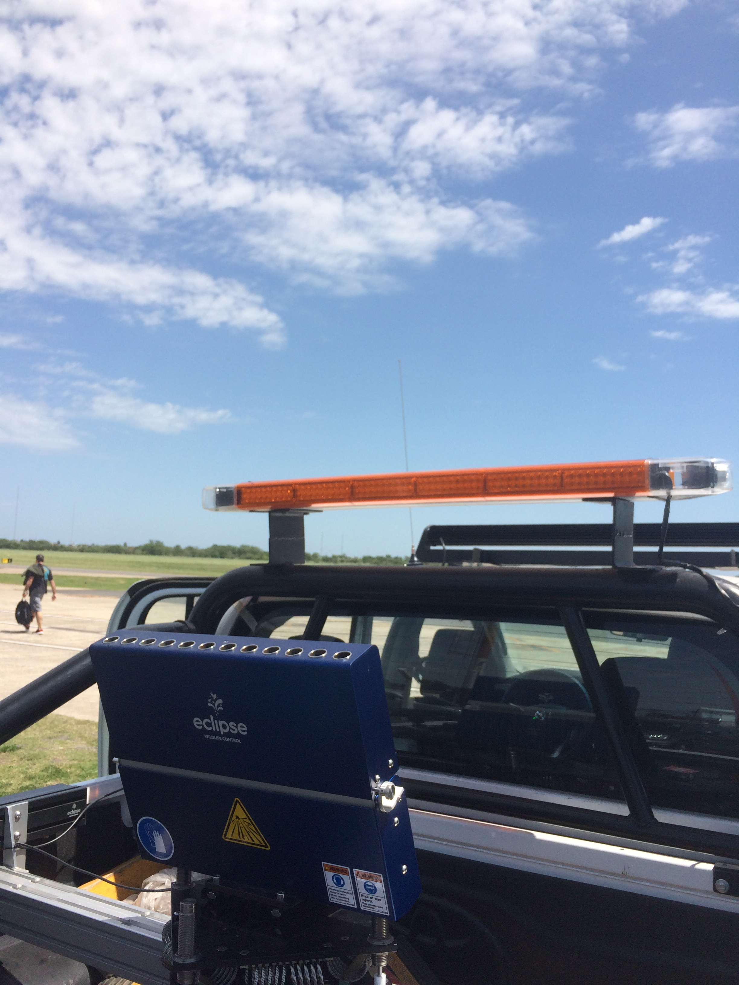 This is an original photo at San Fernando International Airport (FDO) featuring a wireless 12 cannon pyrotechnic specialized launcher designed for birdstrike avoidance & wildlife control.